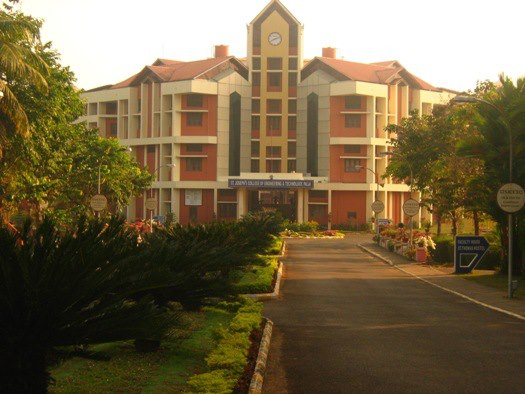 SJCET Front View